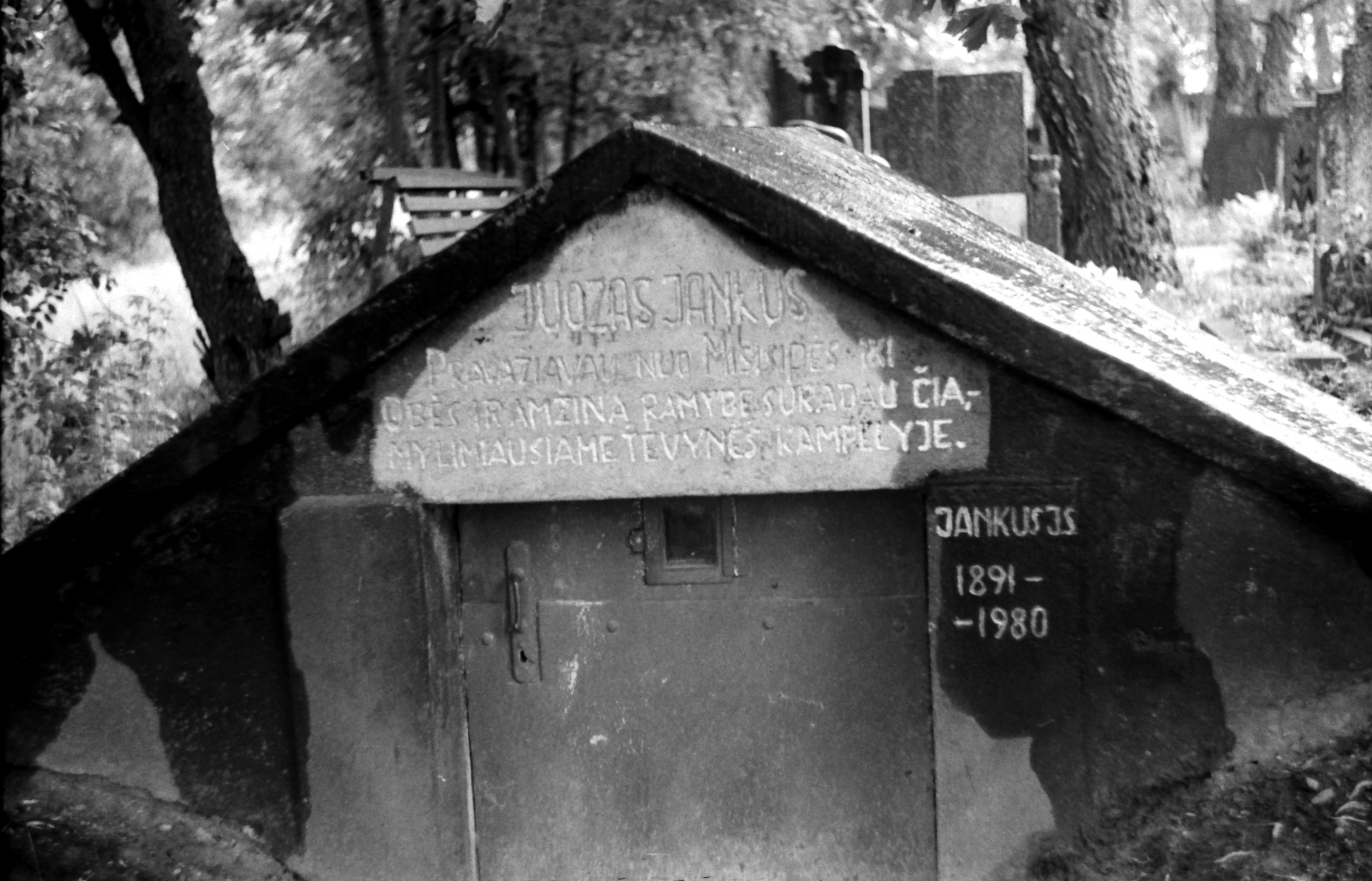 Grave in Kamajai cemetery, 1985, Lithuania